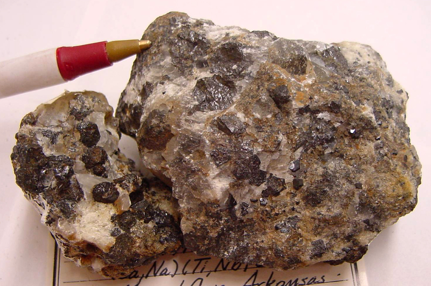 Perovskite (pen for scale) - Collected by A.E. Foote from Magnet Cove, Arkansas - Mineral collection of Brigham Young University Department of Geology, Provo, Utah - BYU index 4-8087, CaTiO3